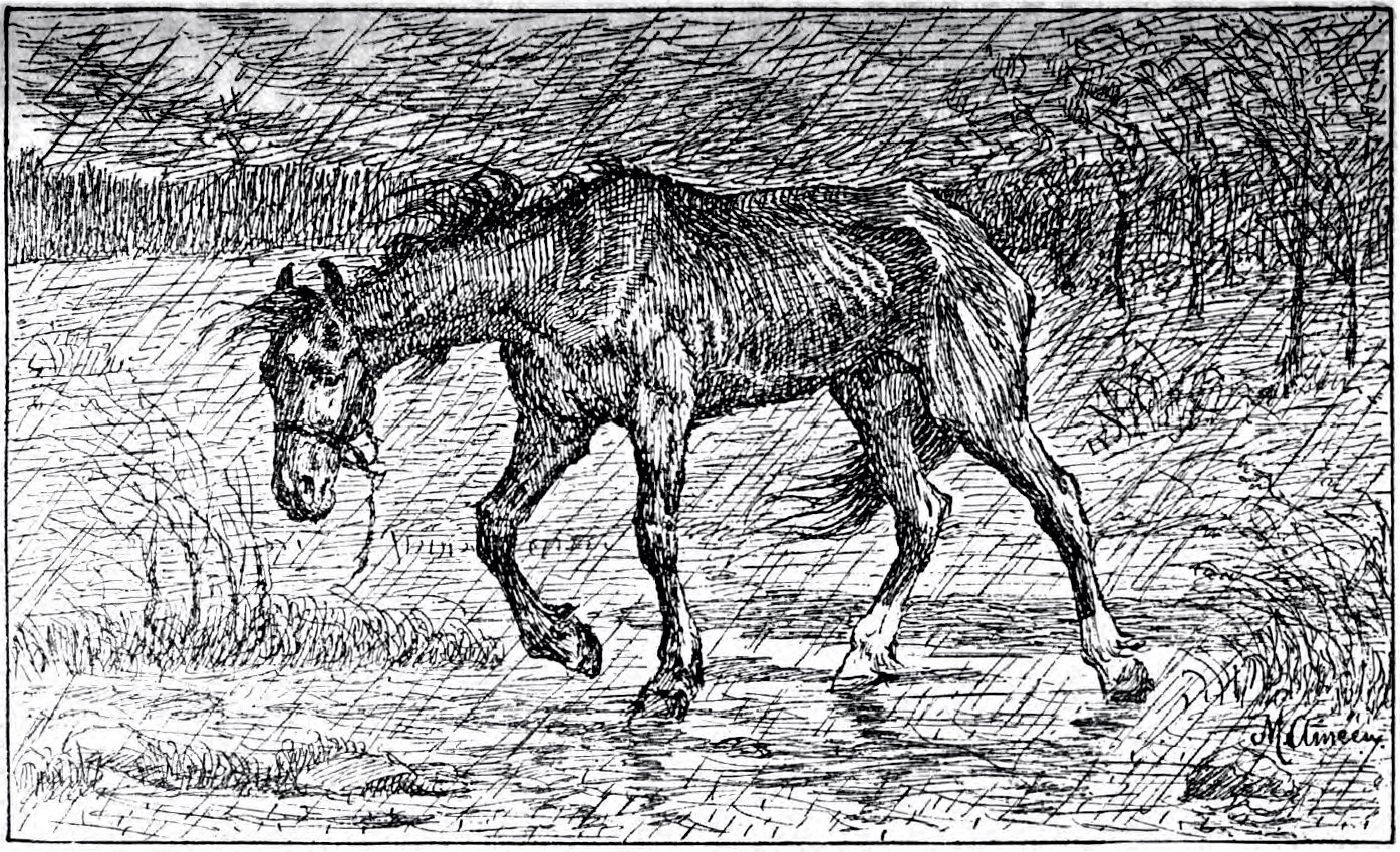 "Den gamla hästen" (The old horse) drawing by Märta Améen (1871-1940). Illustration from Nils Holgerssons underbara resa genom Sverige by Selma Lagerlöf.